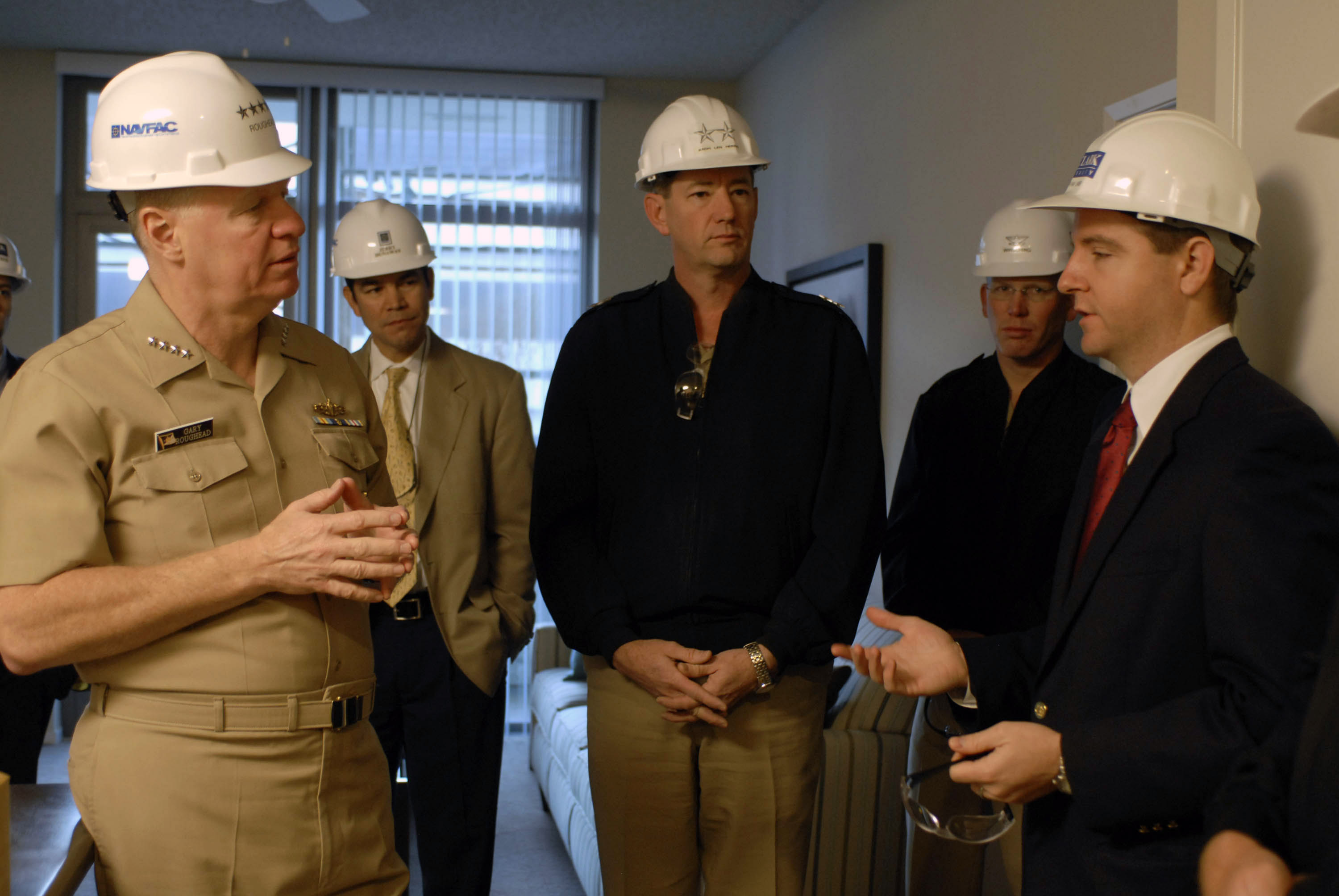 SAN DIEGO (Jan. 11, 2008) Chief of Naval Operations (CNO) Adm. Gary Roughead talks with project managers while touring Pacific Beacon, the Navy's first large-scale housing privatization facility for single Sailors. The facility, constructed of four 18-story towers is scheduled for completion in 2009. U.S. Navy photo by Mass Communication Specialist 1st Class Tiffini M. Jones (Released)